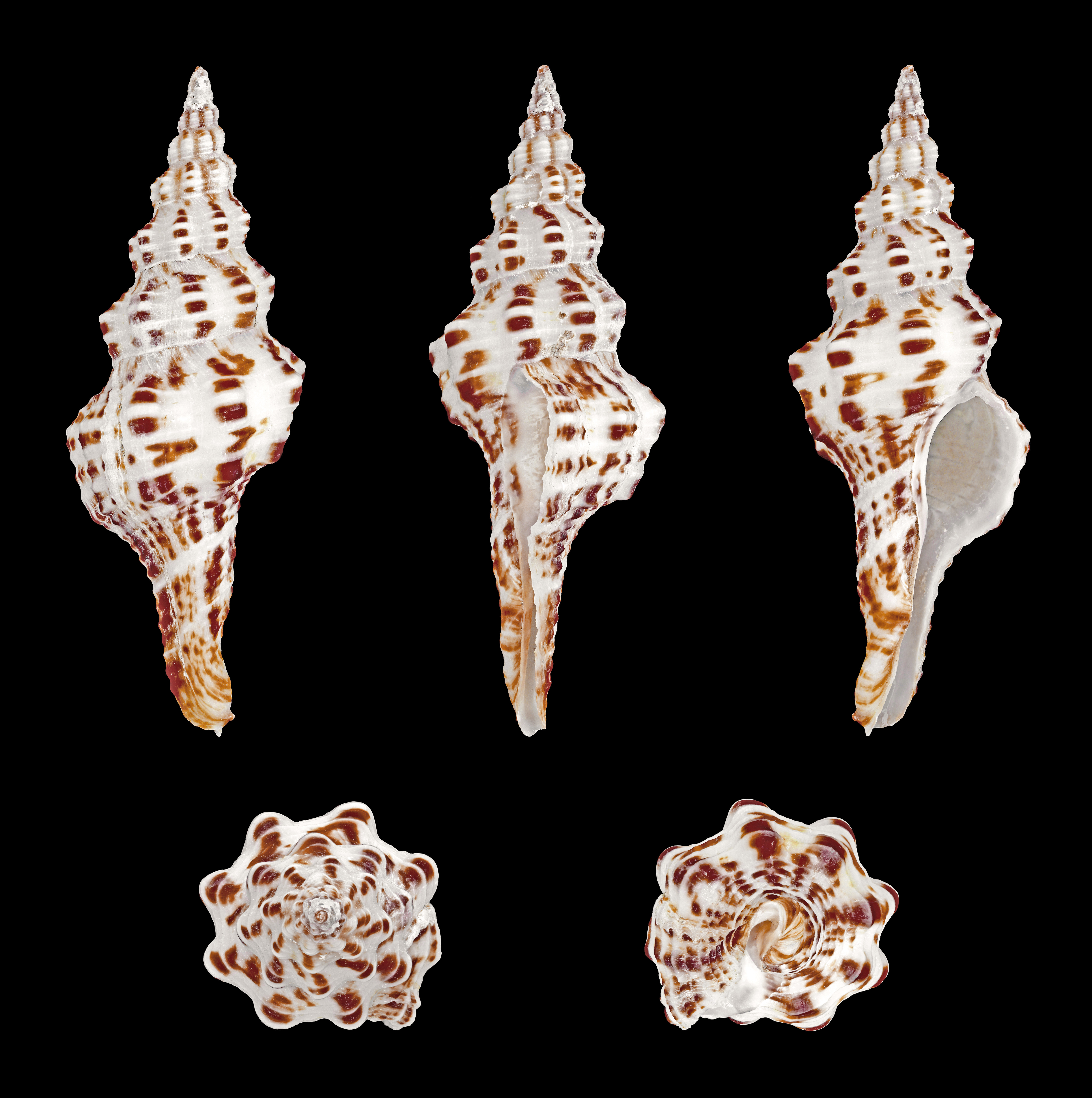 Length 5.8 cm; Originating from the Red Sea, Hurghada, Egypt; Shell of own collection, therefore not geocoded. Dorsal, lateral (right side), ventral, back, and front view.